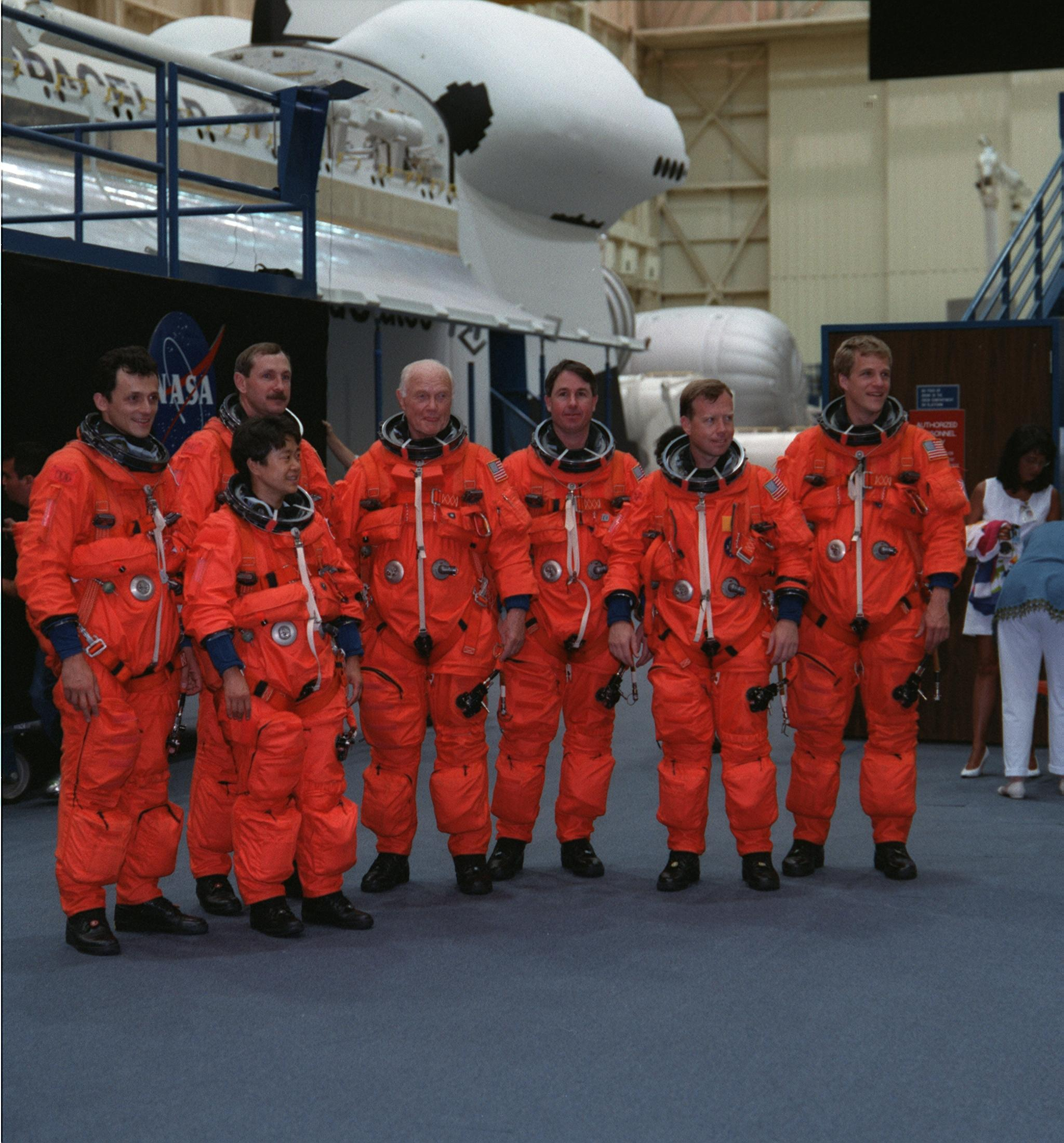 The seven crew members in training for the STS-95 mission aboard Discovery pose for photographers prior to participating in a training session at NASA's Johnson Space Centre. Pictured, from the left, are Pedro Duque, Curtis Brown, Chiaki Nauto-Mukai, then-U.S. Sen. John H. Glenn Jr. (D.-Ohio), Stephen Robinson, Steven Lindsey and Scott Parazynski. Glenn piloted the Mercury-Atlas 6 Friendship 7 spacecraft on America's first manned orbital mission.